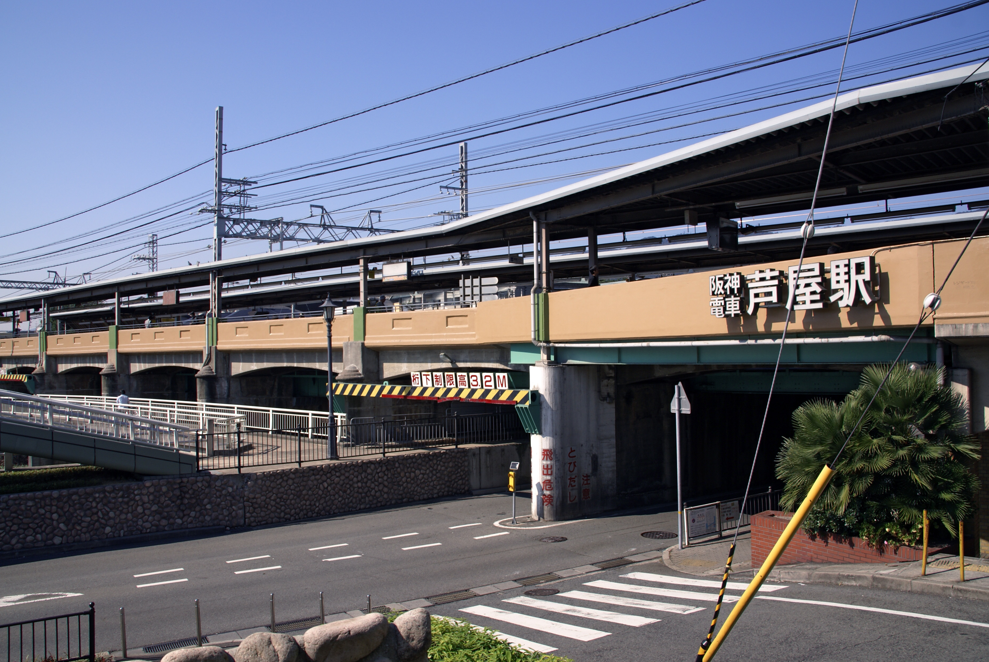 Hanshin Ashiya Station in Ashiya, Hyogo prefecture, Japan